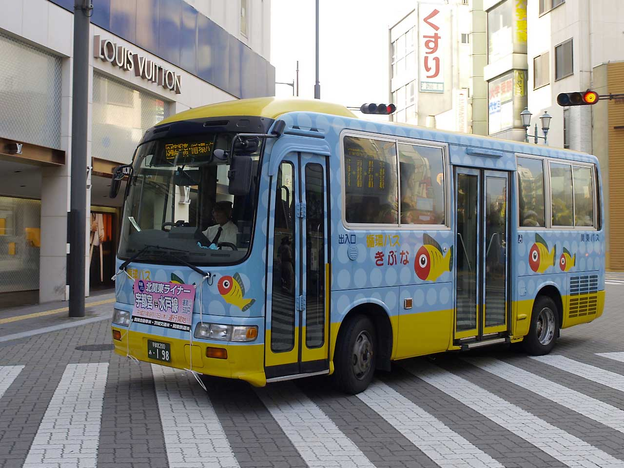 Fleet of Kanto Jidosha, for central Utsunomiya city loop bus "Kibuna" (Yellow Carassius). Model: Hino Liesse KK-RX4JFEA License plate: TGU200 A-198 Place: neighbour of Tobu-Utsunomiya station, Utsunomiya city, Tochigi Japan